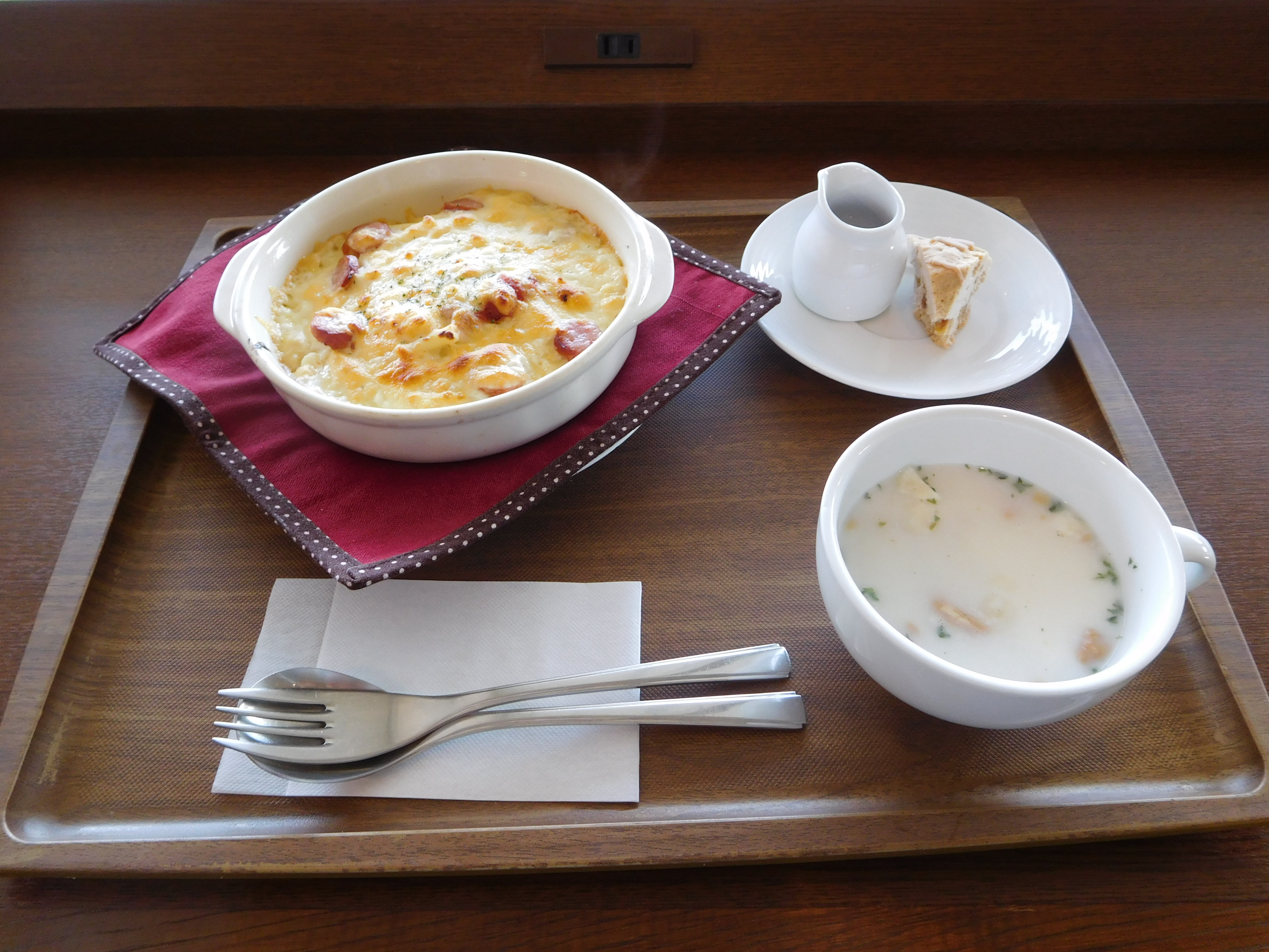 These are "Summit Doria Sets" served at "Café SumMiel" in Kashikojima, Shima, Mie, Japan.